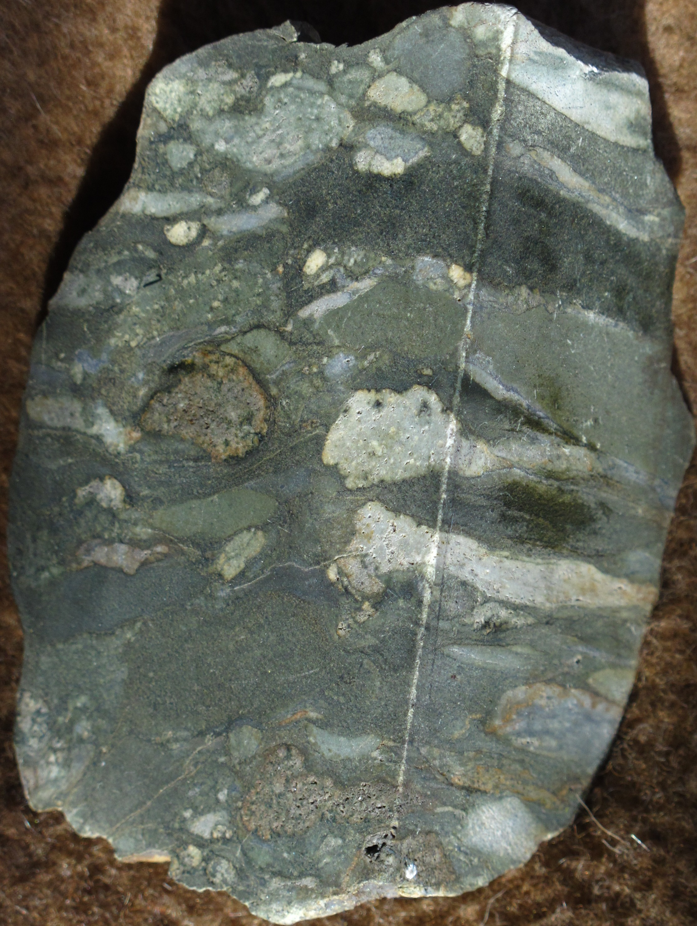 Sample of Funzie conglomerate from southeastern Fetlar, Shetland, cut on two orthogonal faces - parallel and perpendicular to the strong linear fabric. This is a polymict conglomerate deformed during the Caledonian orogeny